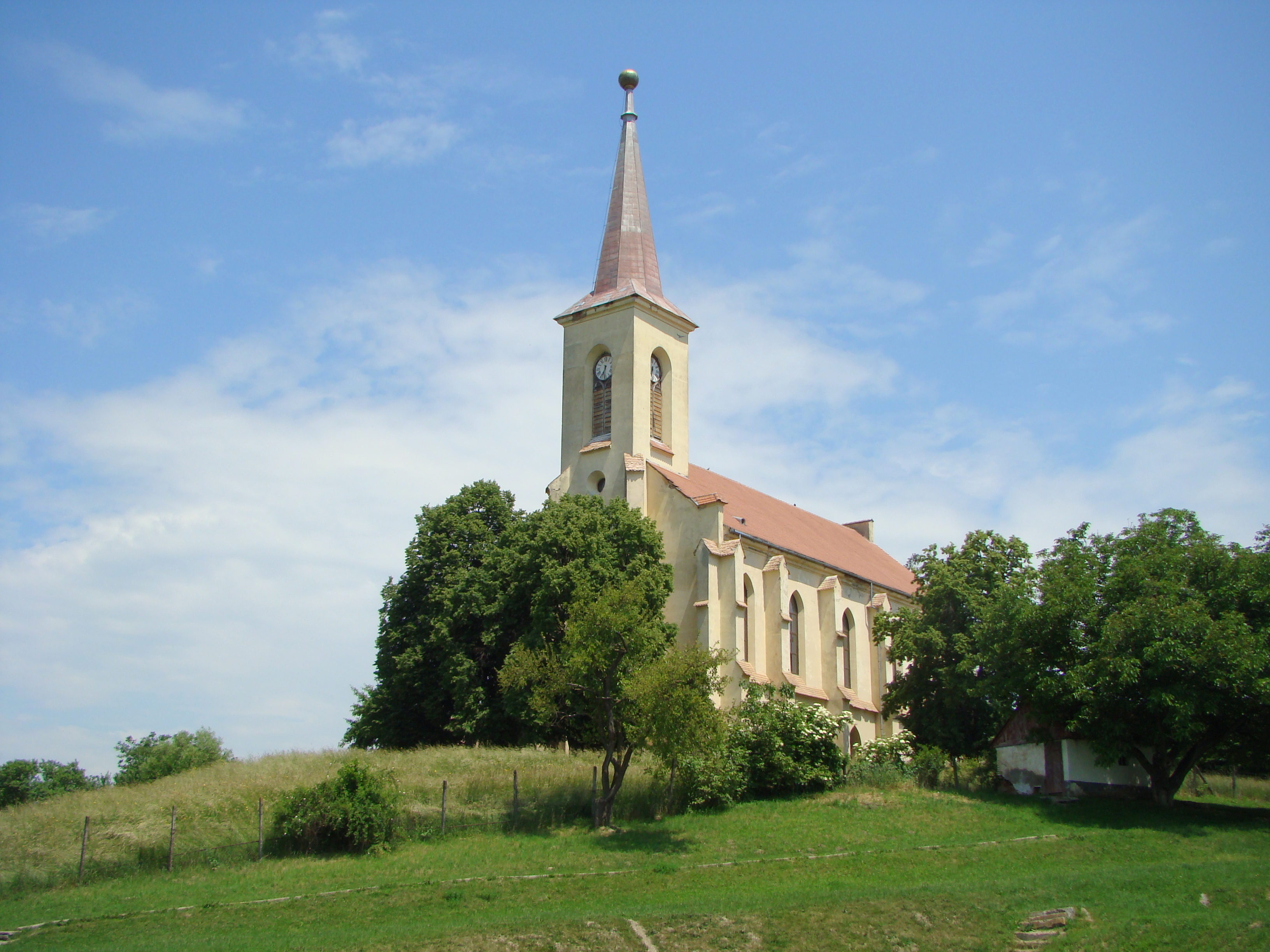 Lutheran church in Dedrad, Mureş county, Romania